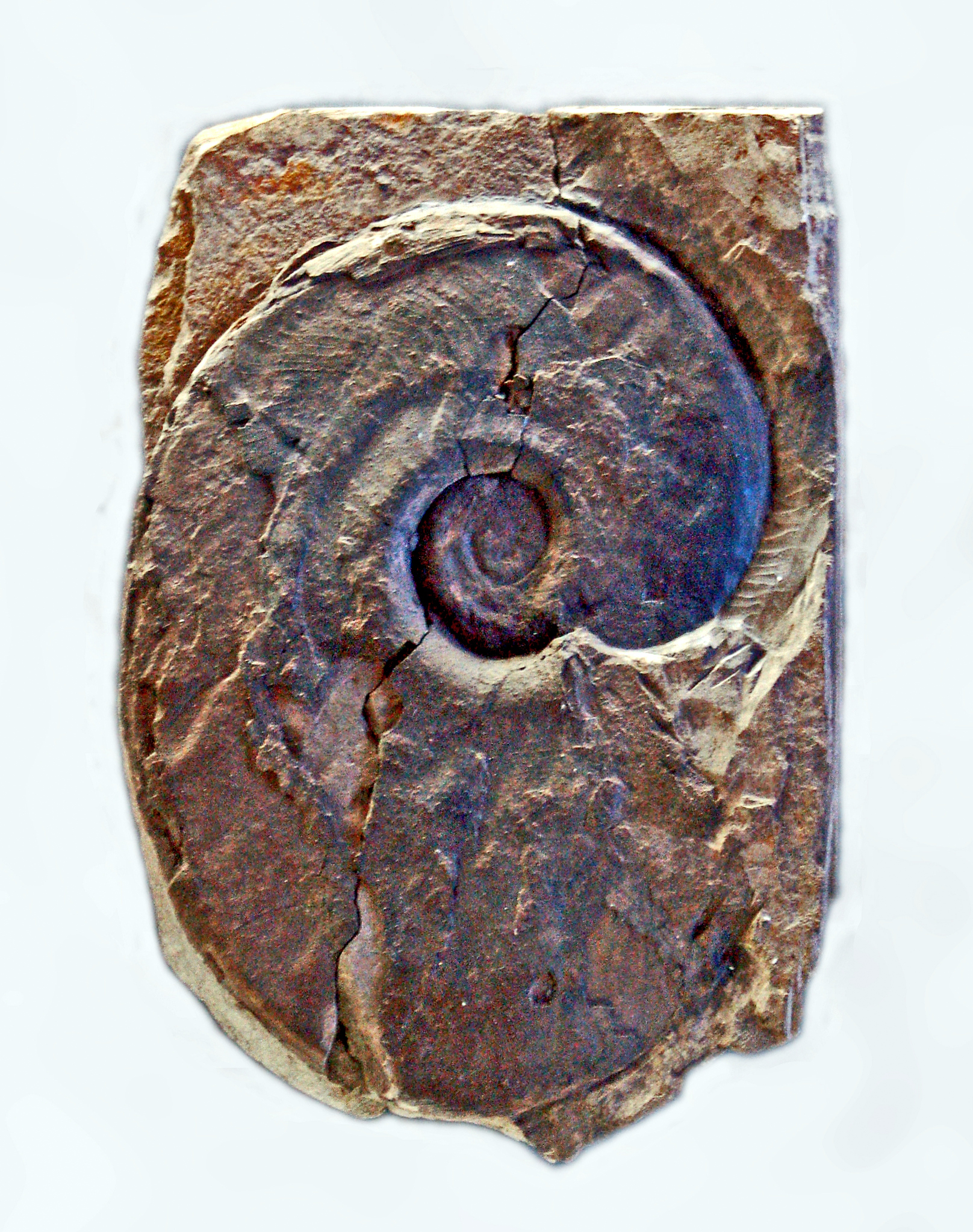 Agoniatites obliquus, from Srbsko, Czech Republic, at the National Museum (Prague)